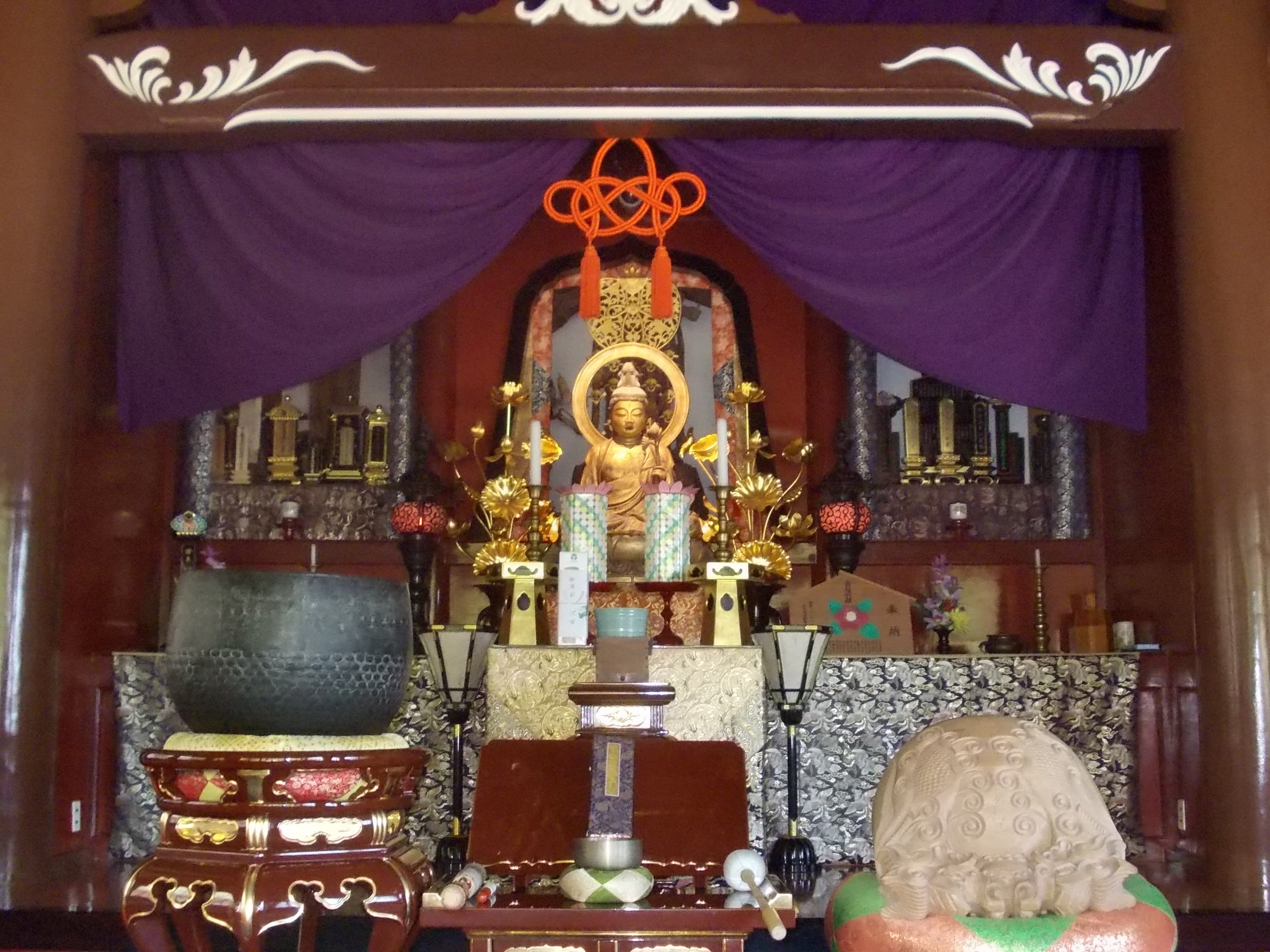 The wooden Avalokiteśvara statue in Shokaku-ji (Jonan-ku, Fukuoka) is the subject of mountainous faith that has been enshrined in the main hall. It has been designated the Cultural Properties of Japan by the government in 1906.